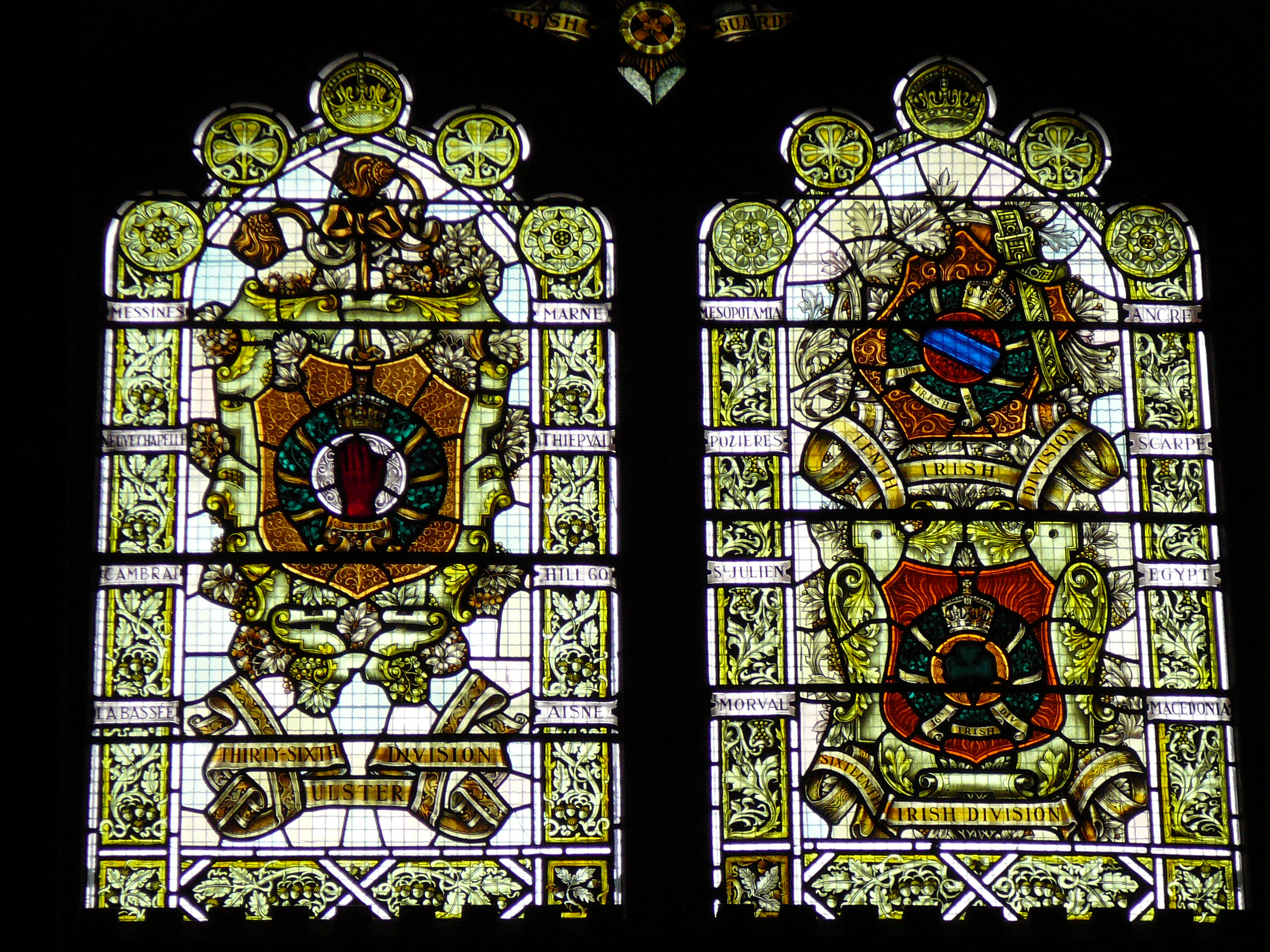 Image of paired stained-glass windows in the Guildhall in Derry, Ireland, commemorating the national involvement of three Irish (Service) Divisions in the Great War 1914-18. Window left displays the Coat of Arms of the 36th (Ulster) Division, the window right, above, the Arms of the 10th (Irish) Division and below those of the 16th (Irish) Division. On all sides are the names of their many important battle engagements. The windows were completed in the early nineteen-twenties.